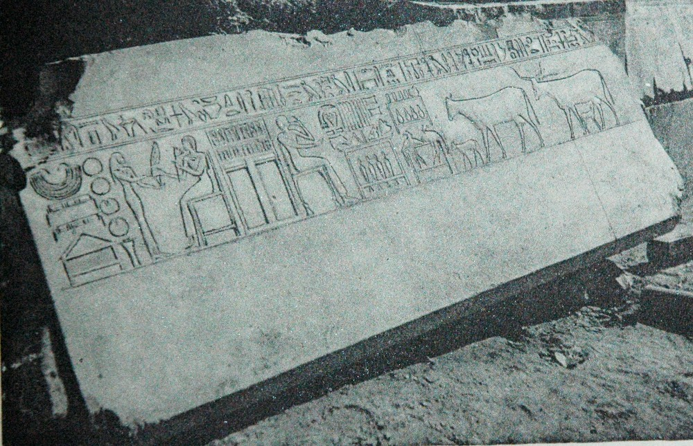 Sarcophagus of Kawit from the Mortuary Temple of Mentuhotep II. at Deir el-Bahari